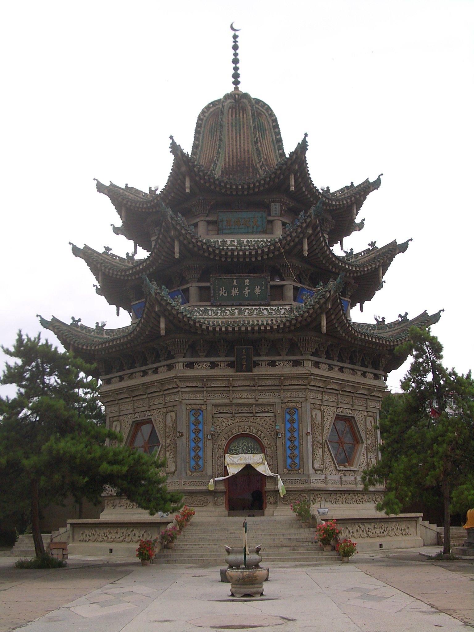 Huasi Gongbei in Linxia City. Includes Ma Laichi's Mausoleum, a mosque, an ablutions block, etc